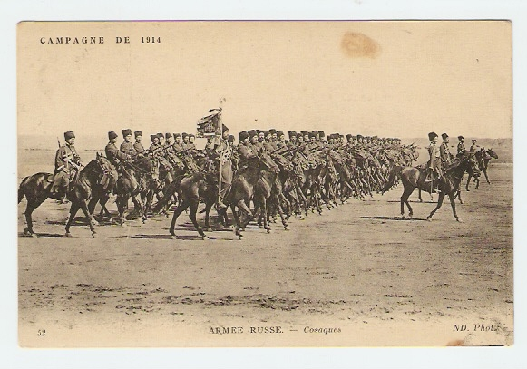 Old postcard, Russian Army, Cossacks, 1914.